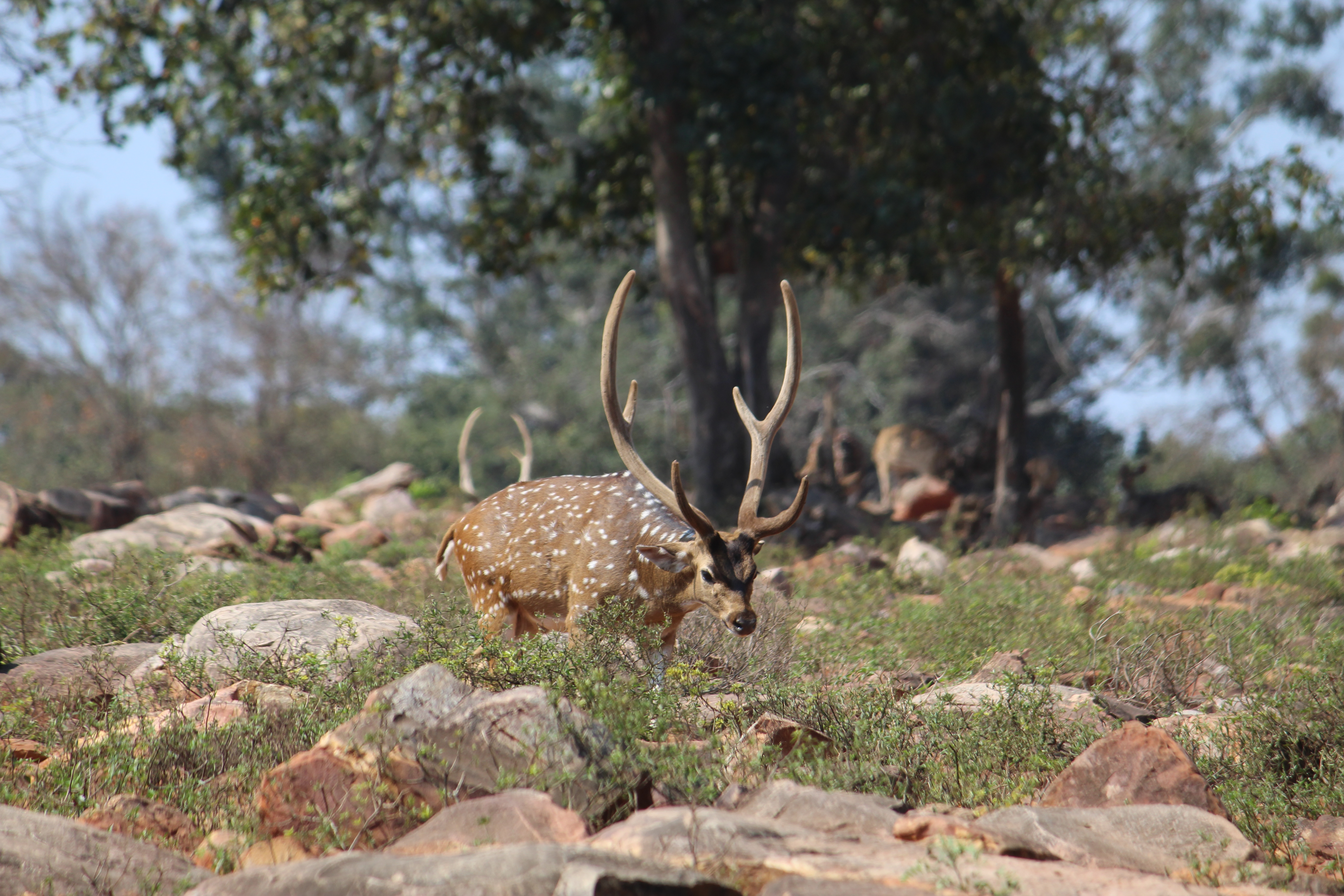 Deer Park near Alipiri Mettu